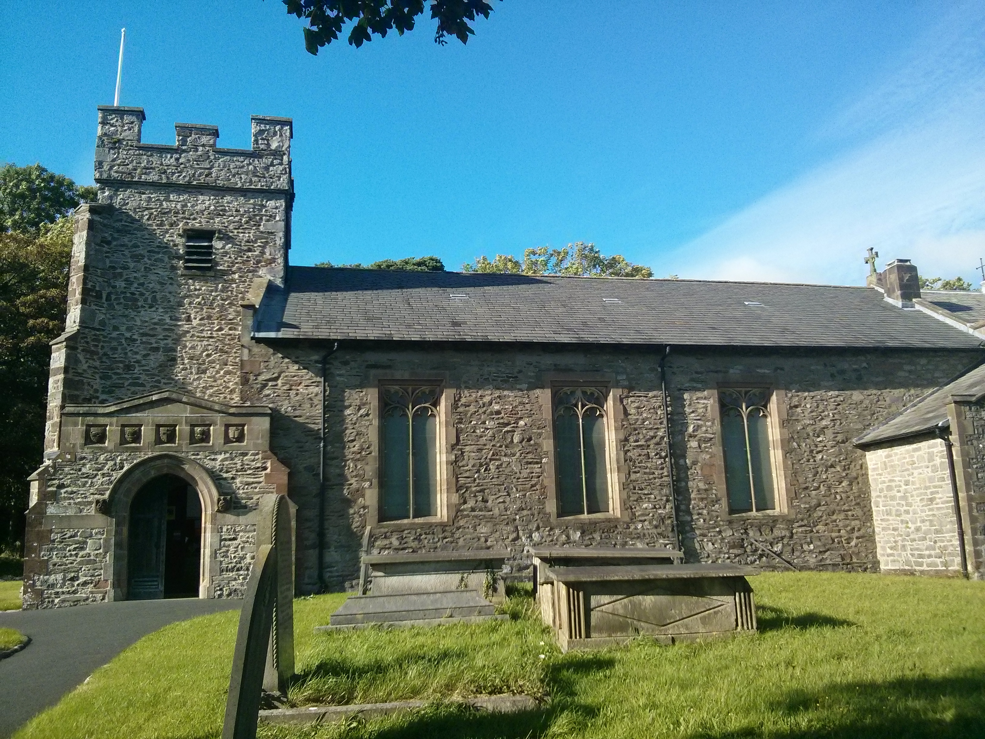 Penni gton Church near Ulverston